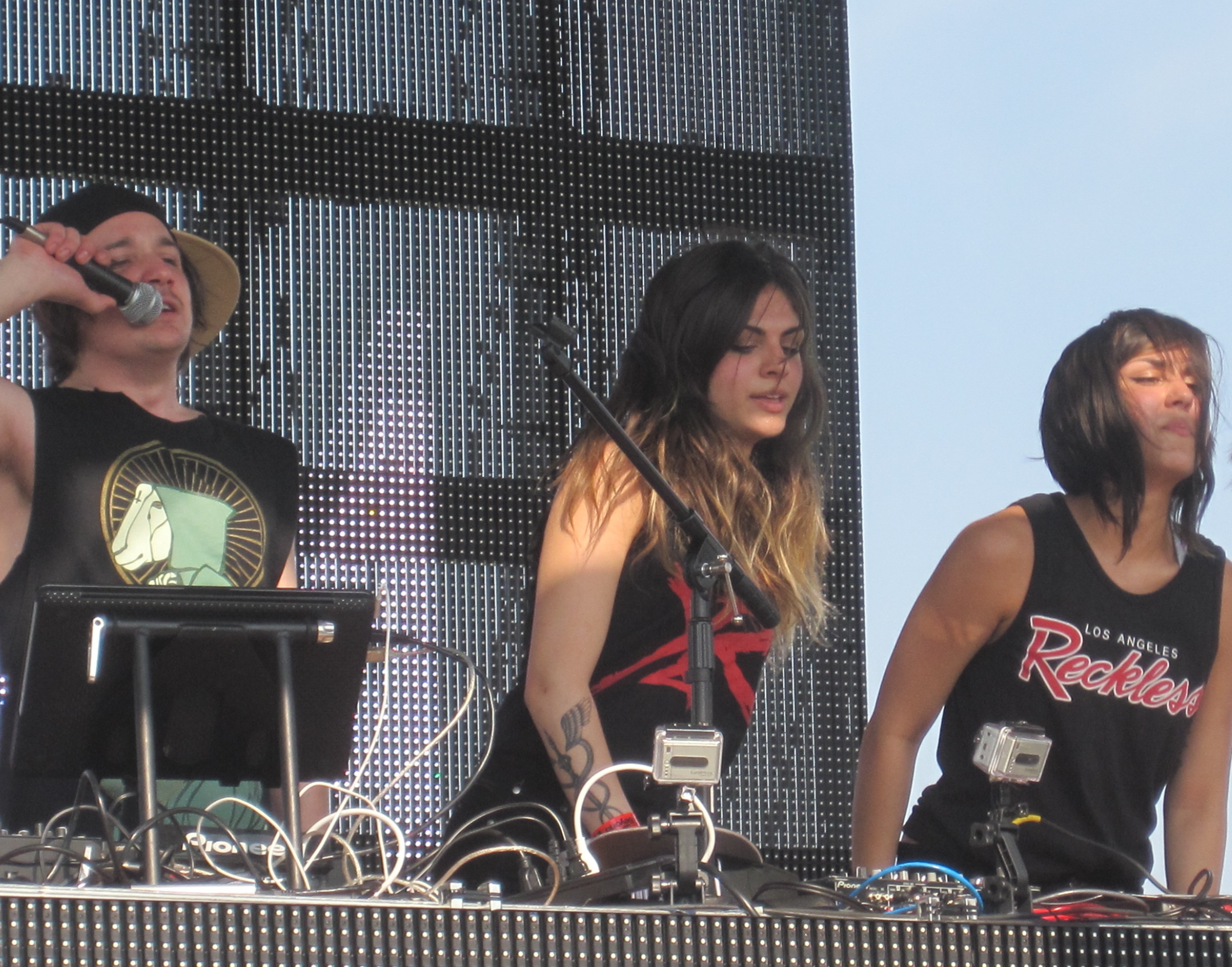 Krewella (from left to right: Kris "Rain Man" Trindl, Jahan Yousaf, and Yasmine Yousaf) performing at the Indianapolis Motor Speedway in Speedway, Indiana on Sunday, May 27th, 2012.